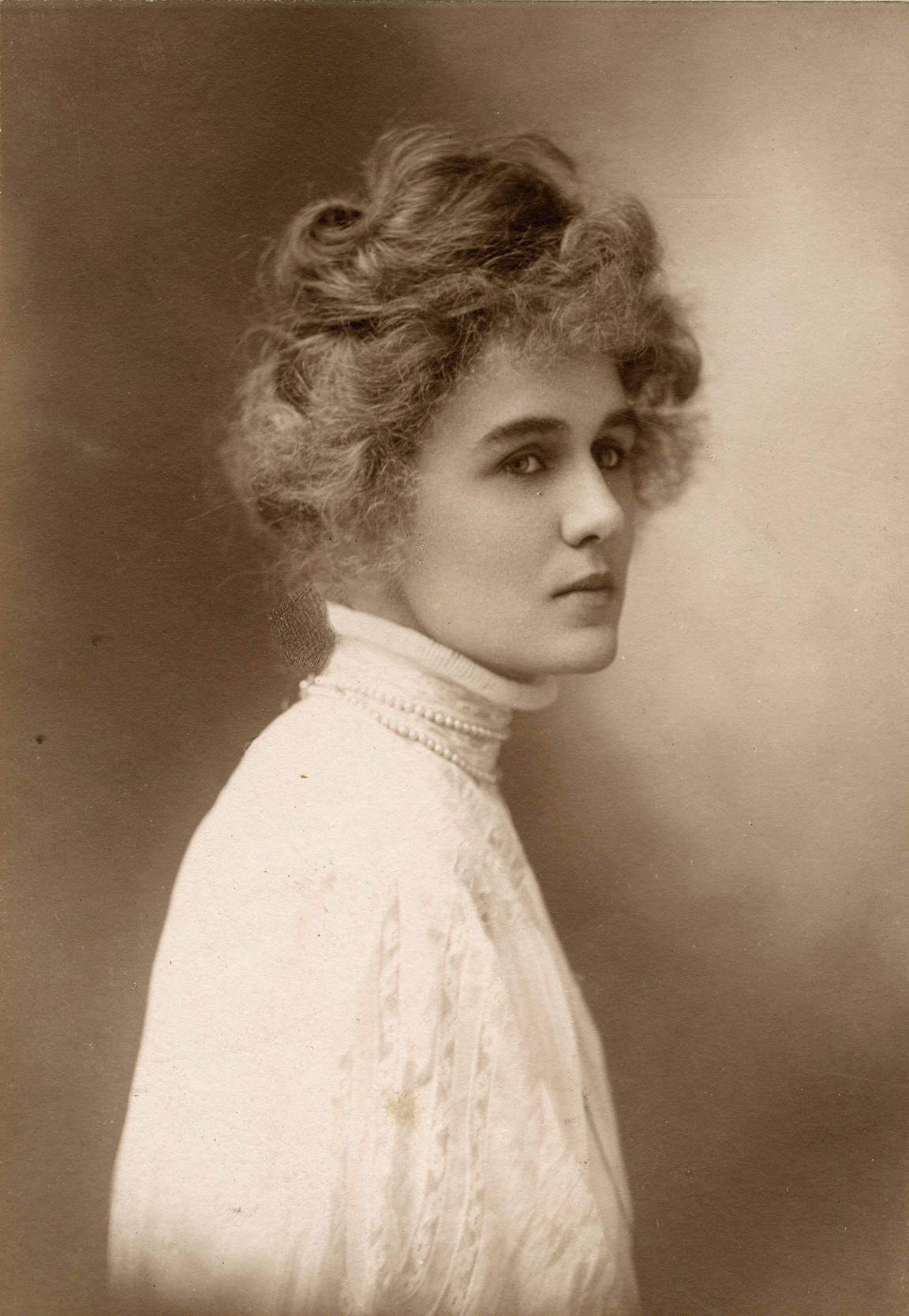 Emily Stevens, stage actress Subjects: actresses